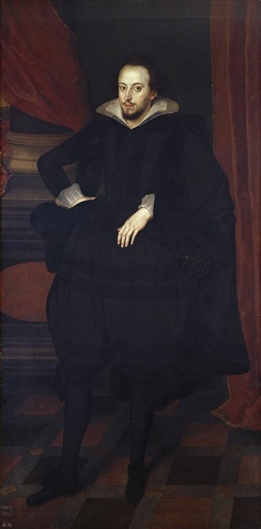 Louis Frederick, Duke of Württemberg-Mömpelgard (1586-1631)